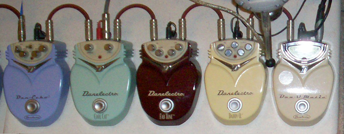 Danelectro Original effects Dan-Echo simulated tape echo Cool Cat chorus Fab Tone distortion Daddy O overdrive Dan-O-Matic tuner “... assorted guitar effect pedals.” —Lionel R. Chetwynd at en.wikipedia